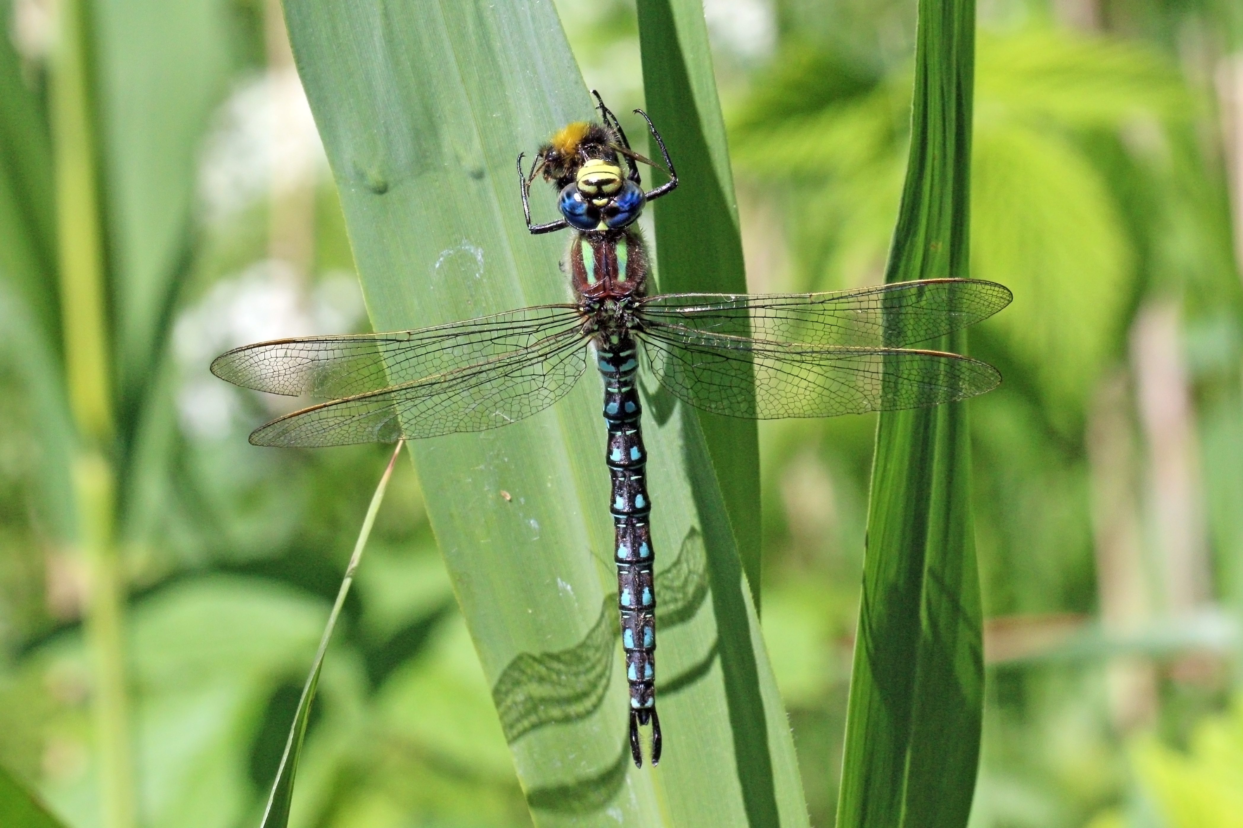 Hairy dragonfly (Brachytron pratense) male eating bee, Koigi Bog, Saaremaa, Estonia